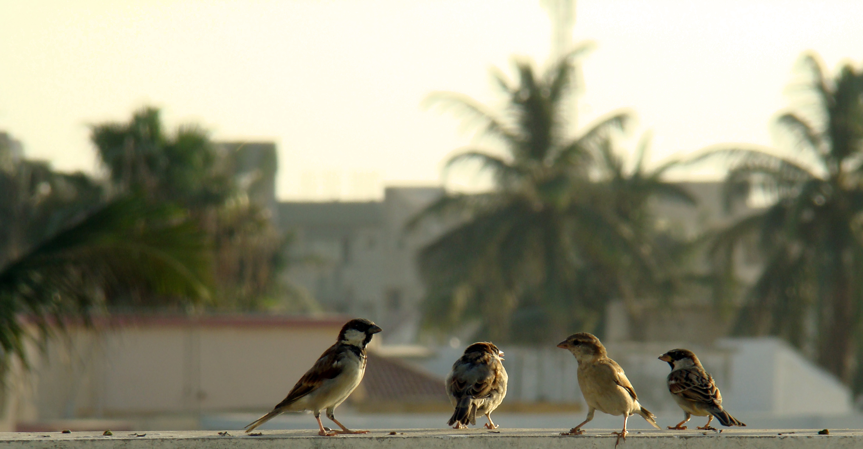 A group of House Sparrows in Pakistan